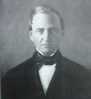 John Smith, US Congressman from Vermont